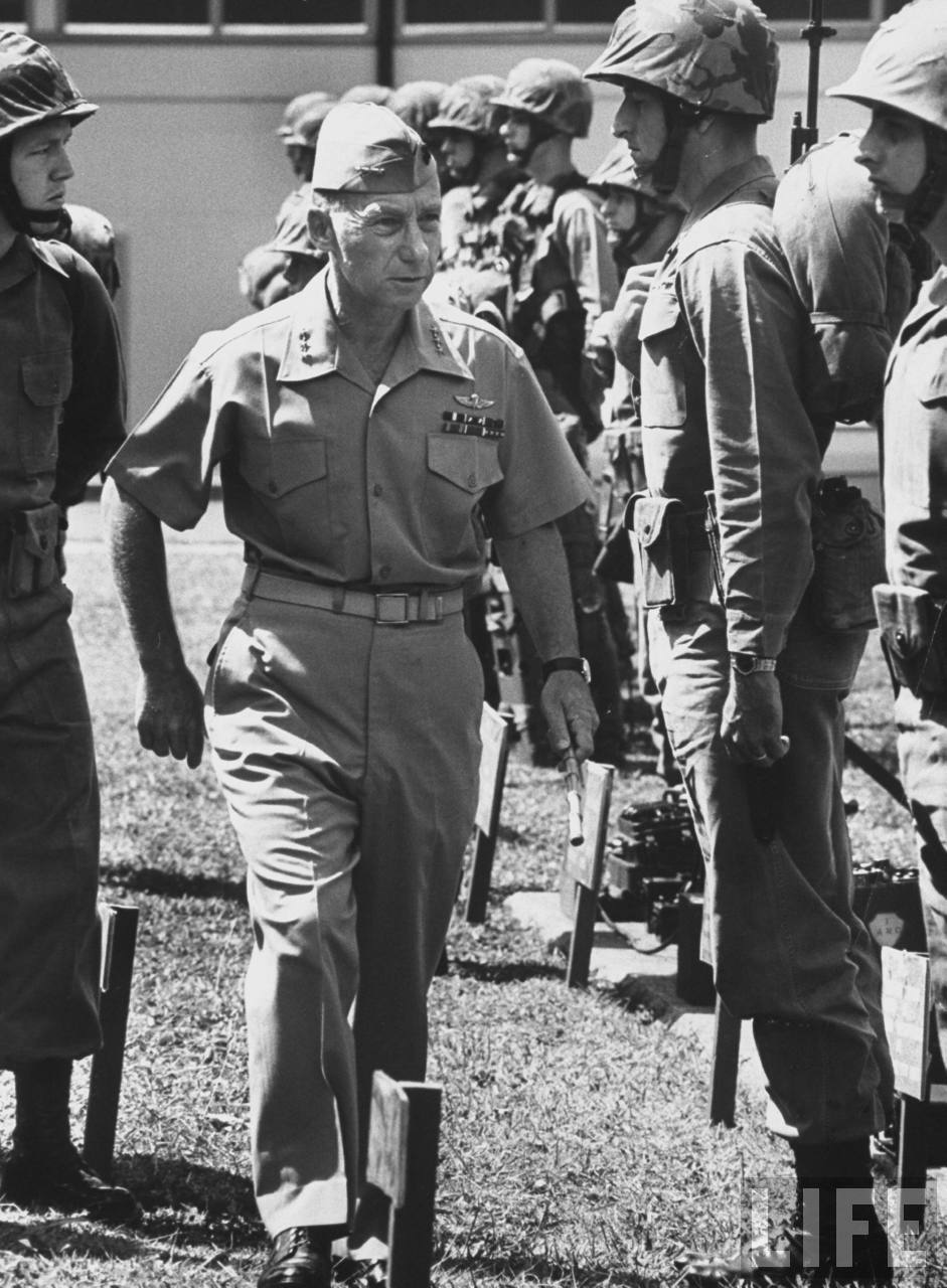 Lt. Gen. Victor Krulak inspects Marines from First Air Naval Gunfire Liaison Company in Hawaii, April 1965. Krulak, a legend in the Marine Corps, passed away Dec. 29 at the age of 95.